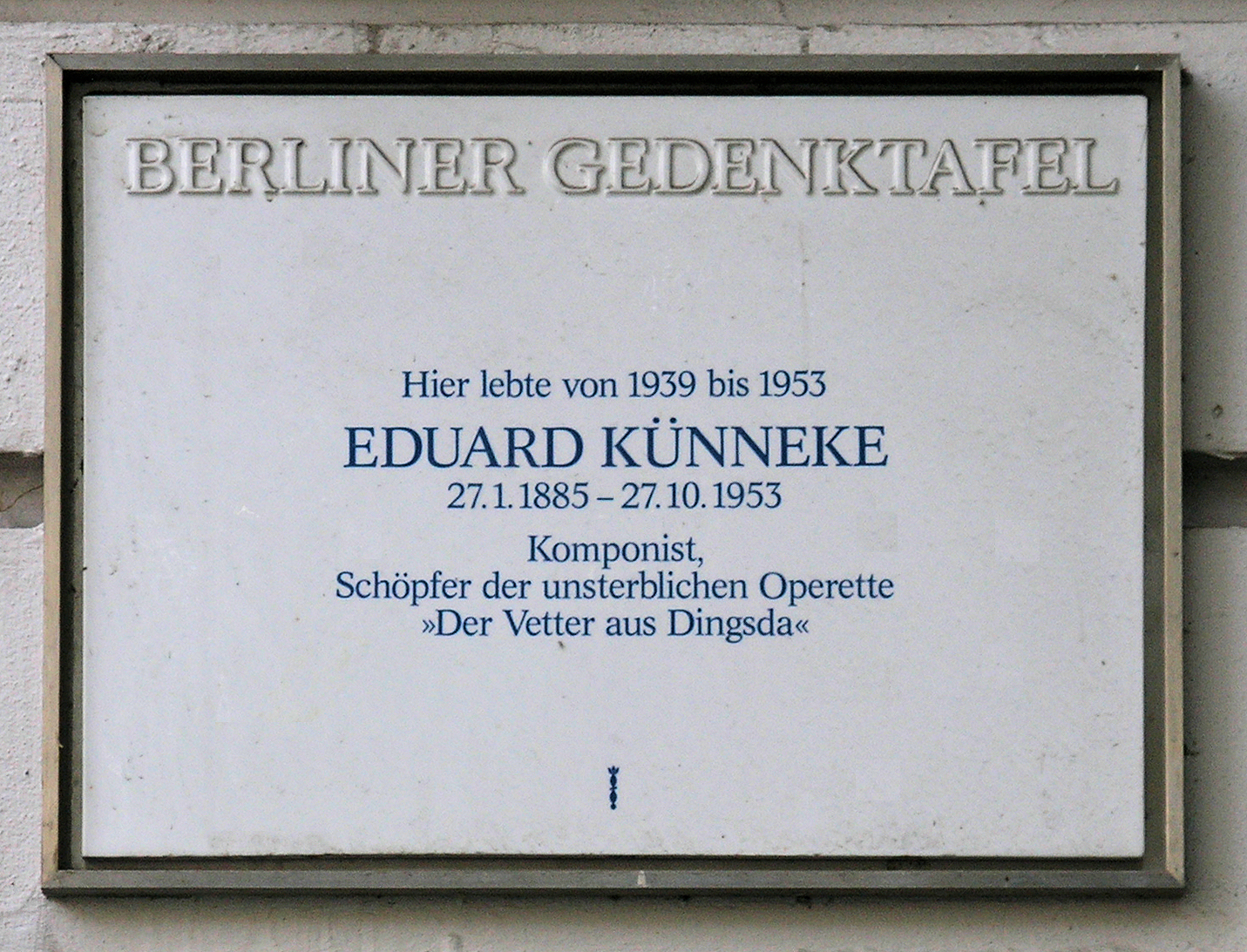 Berlin memorial plaque, Eduard Künneke, Giesebrechtstraße 5, Berlin-Charlottenburg, Germany Koordinate:52°30′6″N 13°18′36″E / 52.50167°N 13.31°E